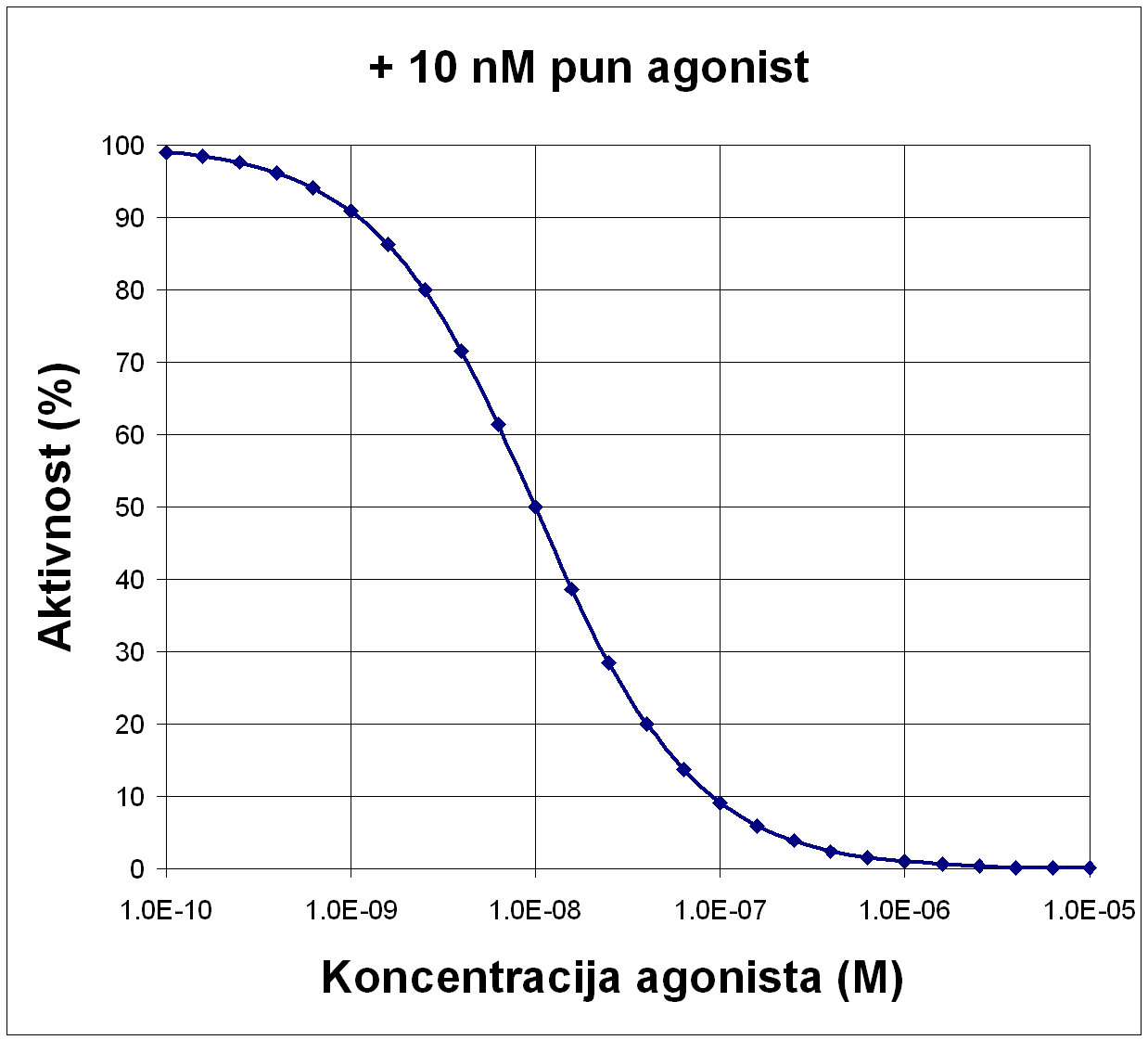 Receptor antagonist dose response curve